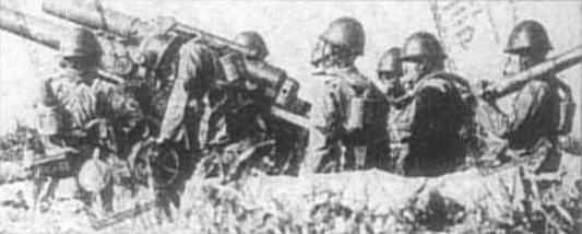 8cm 3rd Year Type anti-aircraft gun of the Japanese Naval Landing Force